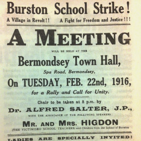 Burslem School Strike 1916 Rally poster